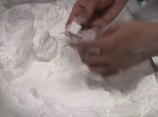 Laser Sintering: Taking the model out of the construction material